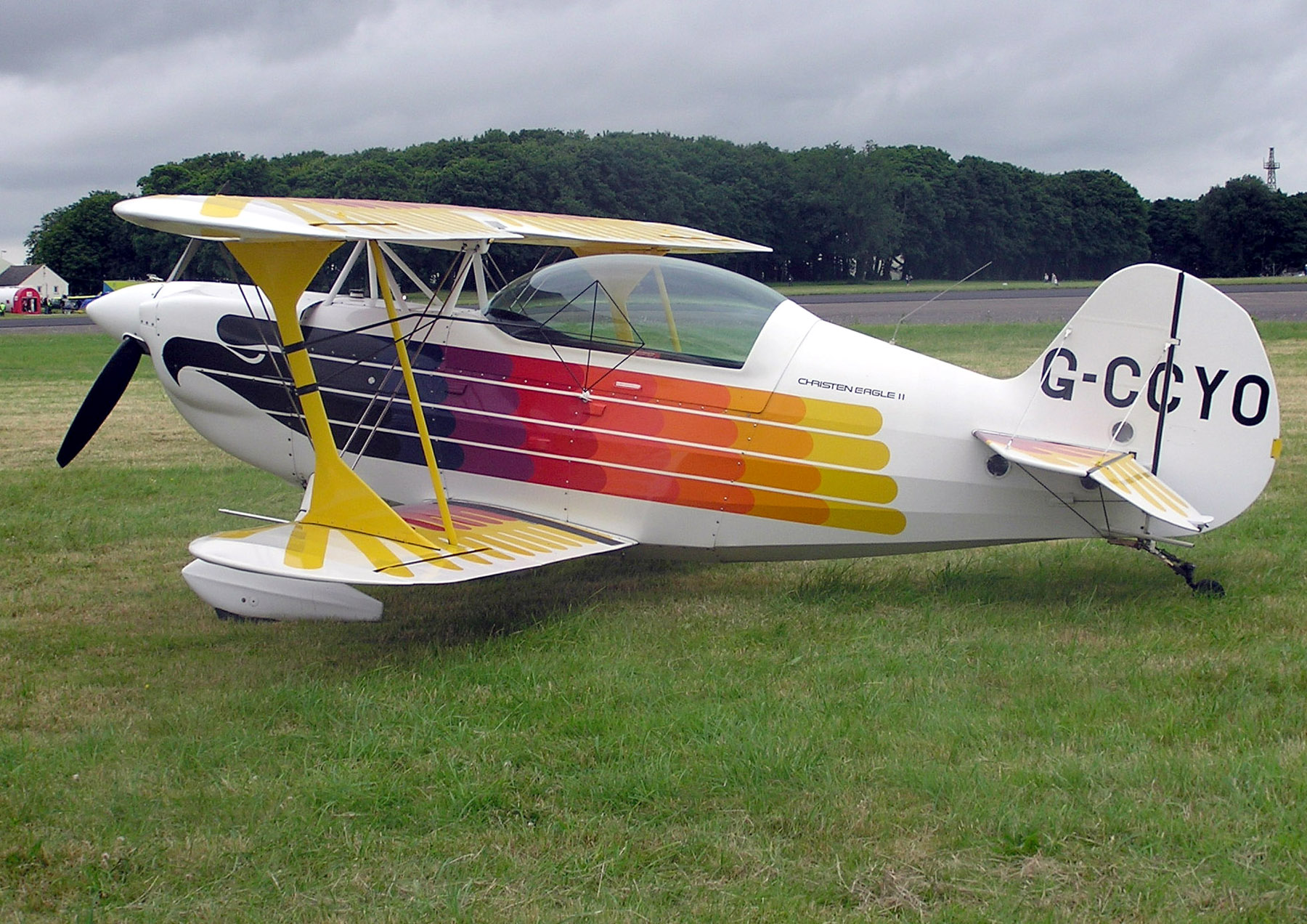 Christen Eagle 2 at Kemble Airfield, Gloucestershire, England. Built 1987.